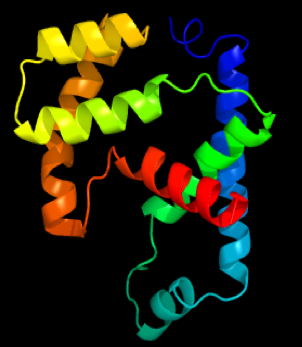 The tertiary structure of protein KIAA0895.